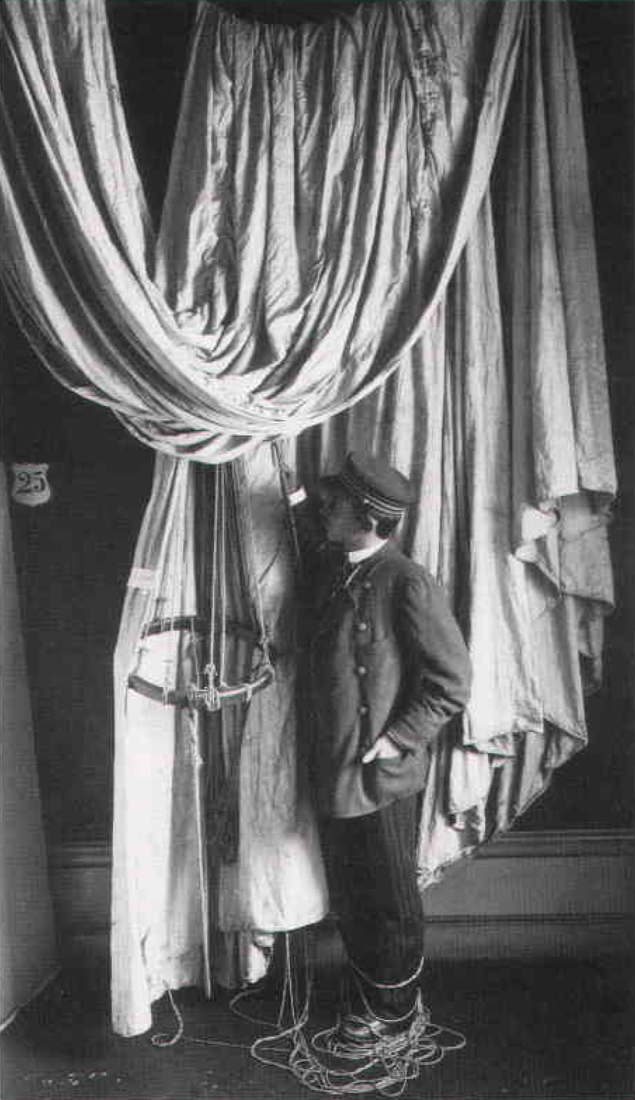 Wax sculpture of Victor Rolla and his parachute at Panoptikon, a wax museum in Stockholm 1889–1924. Digitized by Stockholm City Museum.